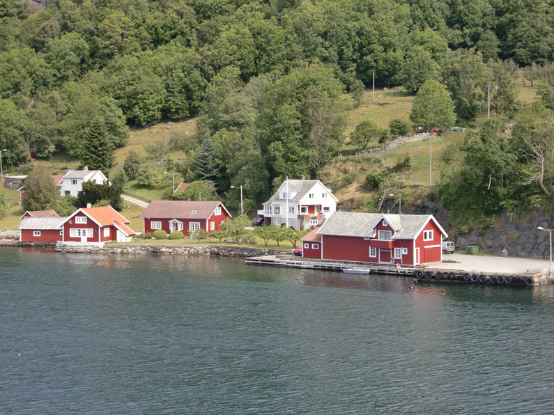 Aubøsund, Sjernarøy in june 2010